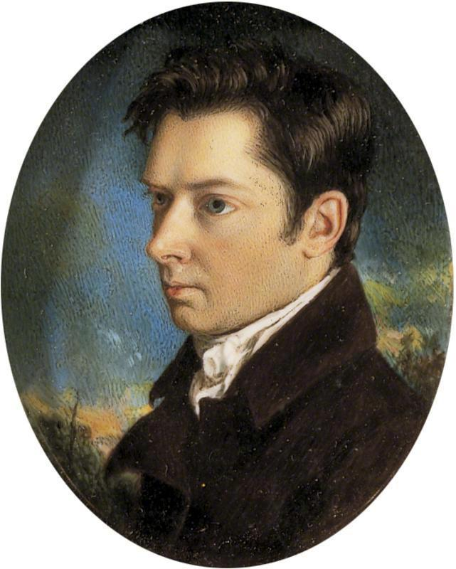 Portrait of William Hazlitt. Oil on canvas, 70 x 60 cm. Maidstone Museum & Bentlif Art Gallery. Accession number: 67.1909.24